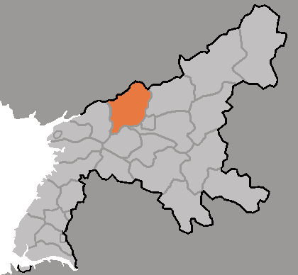 Map of Chongjin, Kaechon-namdo, DPRK, 2006